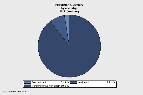 Population of Denmark 1.January 2012 .